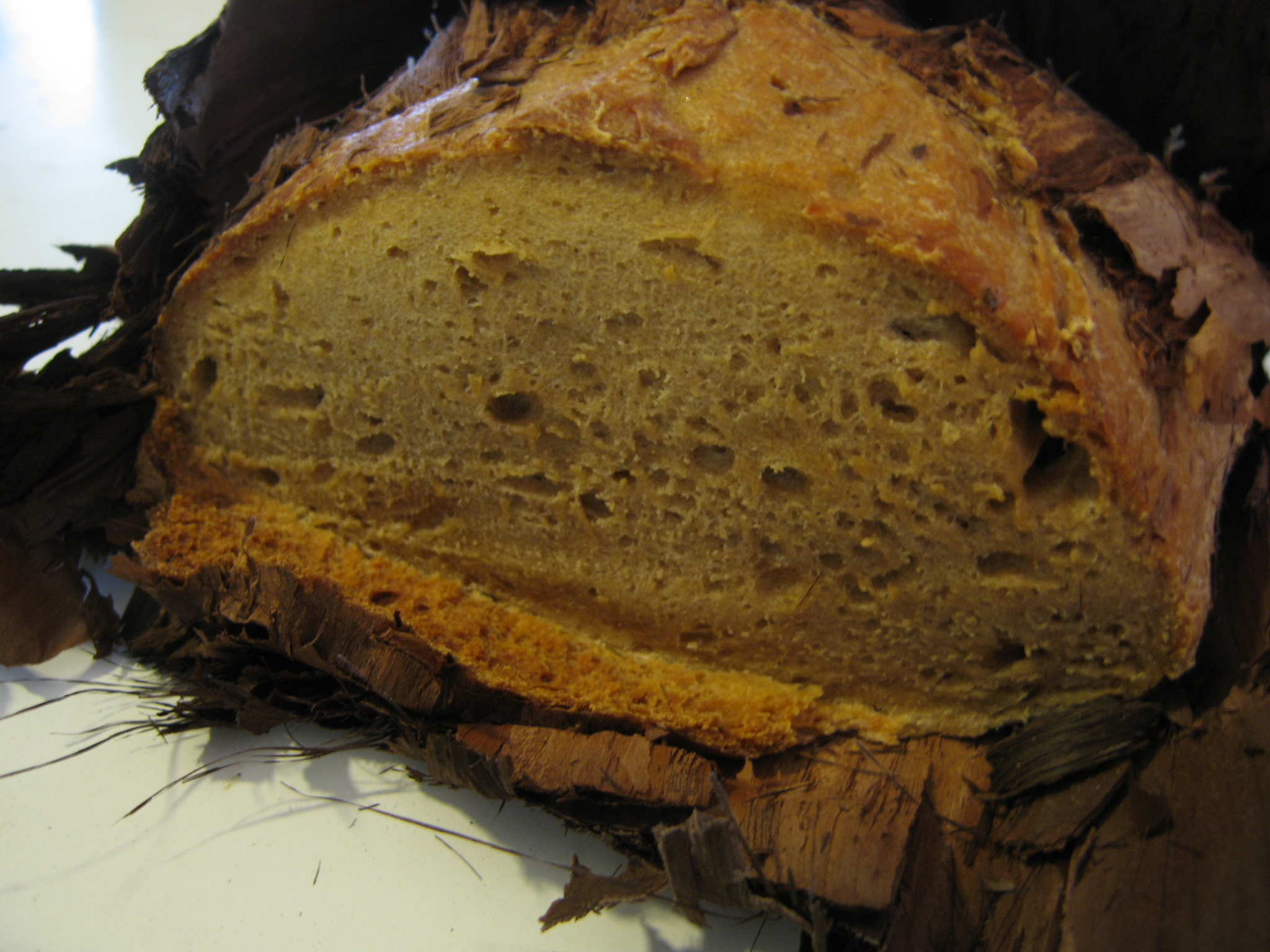 rosemary and chimay beer bread in Australian paper bark